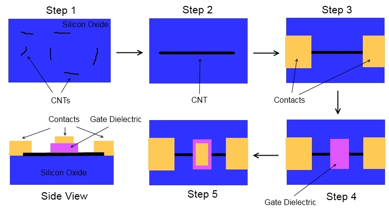 Steps in fabricating a top-gated CNTFET.